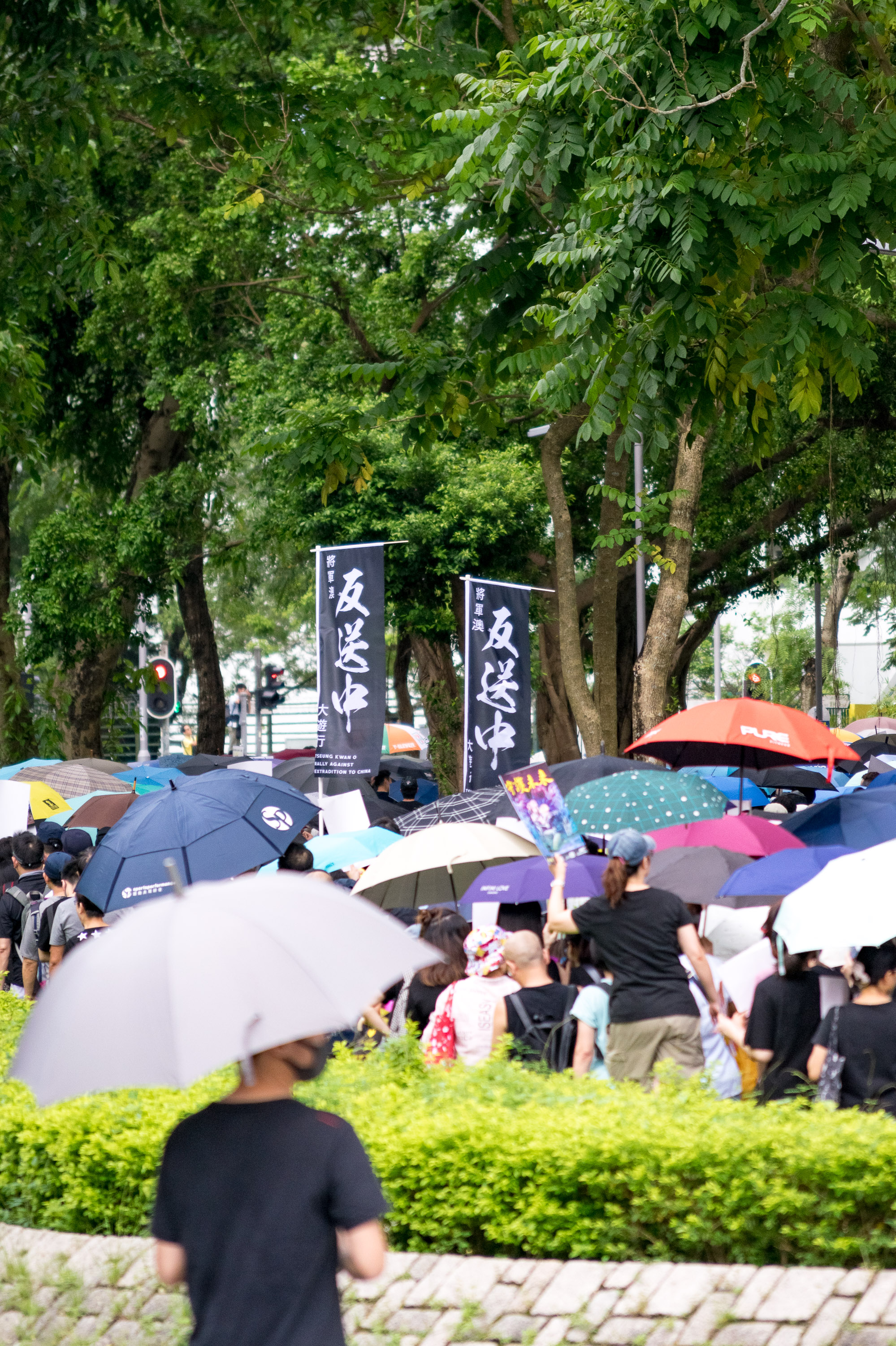 August 4 demonstration, capturing Po Lam Road North, Tseung Kwan O